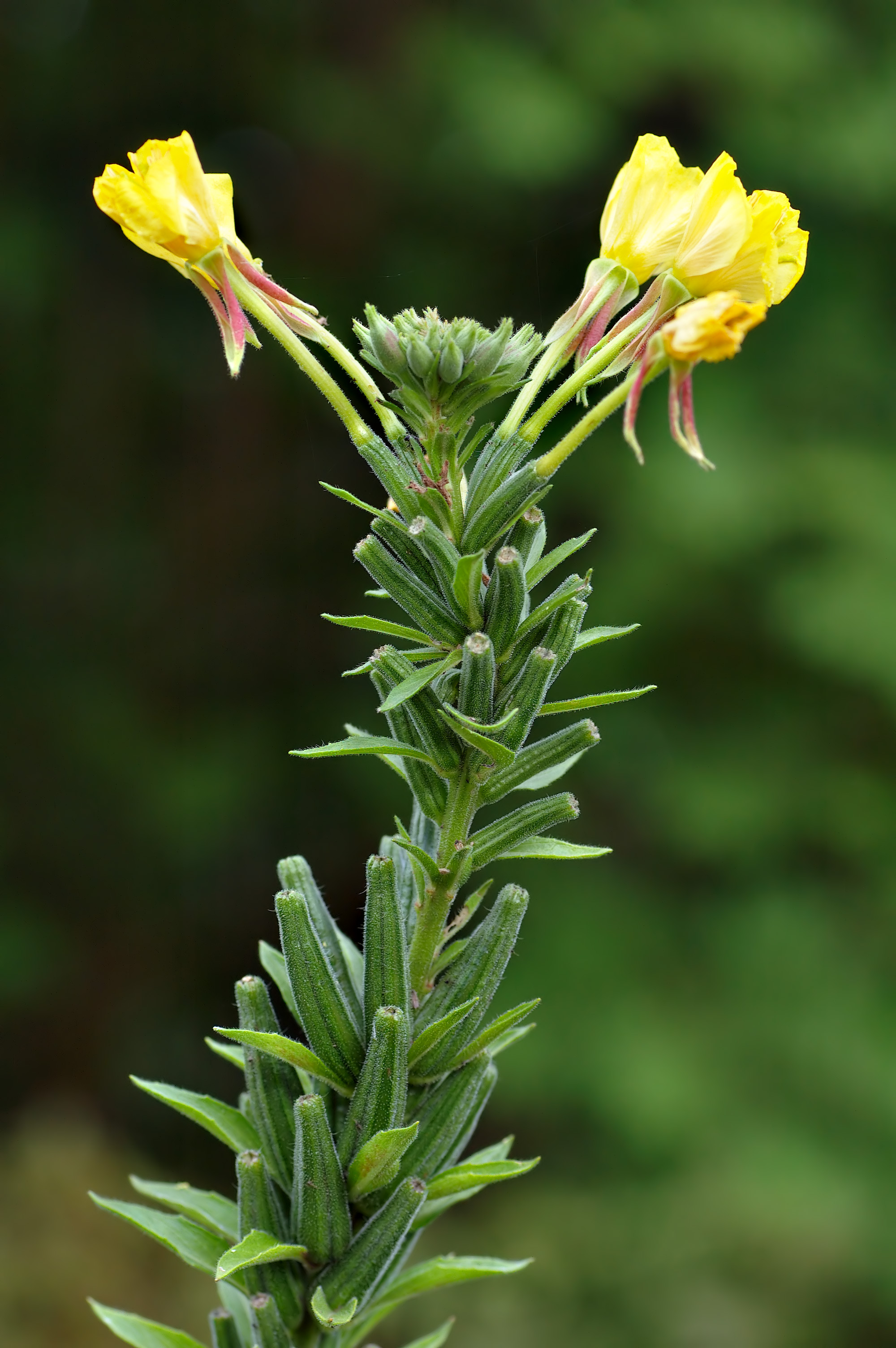 This image shows a plant of the species Oenothera x hoelscheri.